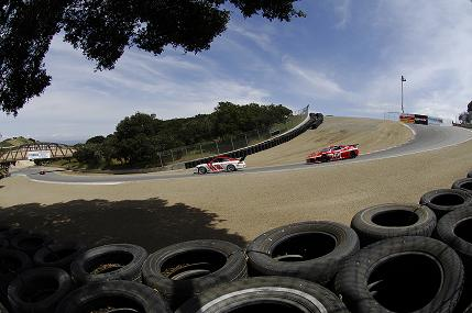 The famous Corkscrew Turn at Mazda Raceway Laguna Seca. Photo provided by Mazda Raceway Laguna Seca.